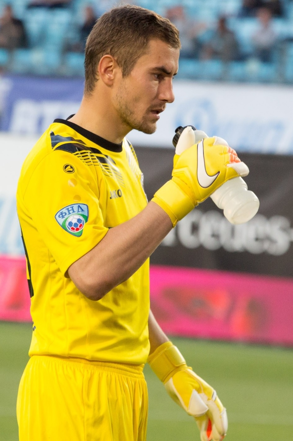 Artyom Smirnov with FC Tyumen in a game against FC Dynamo Moscow.